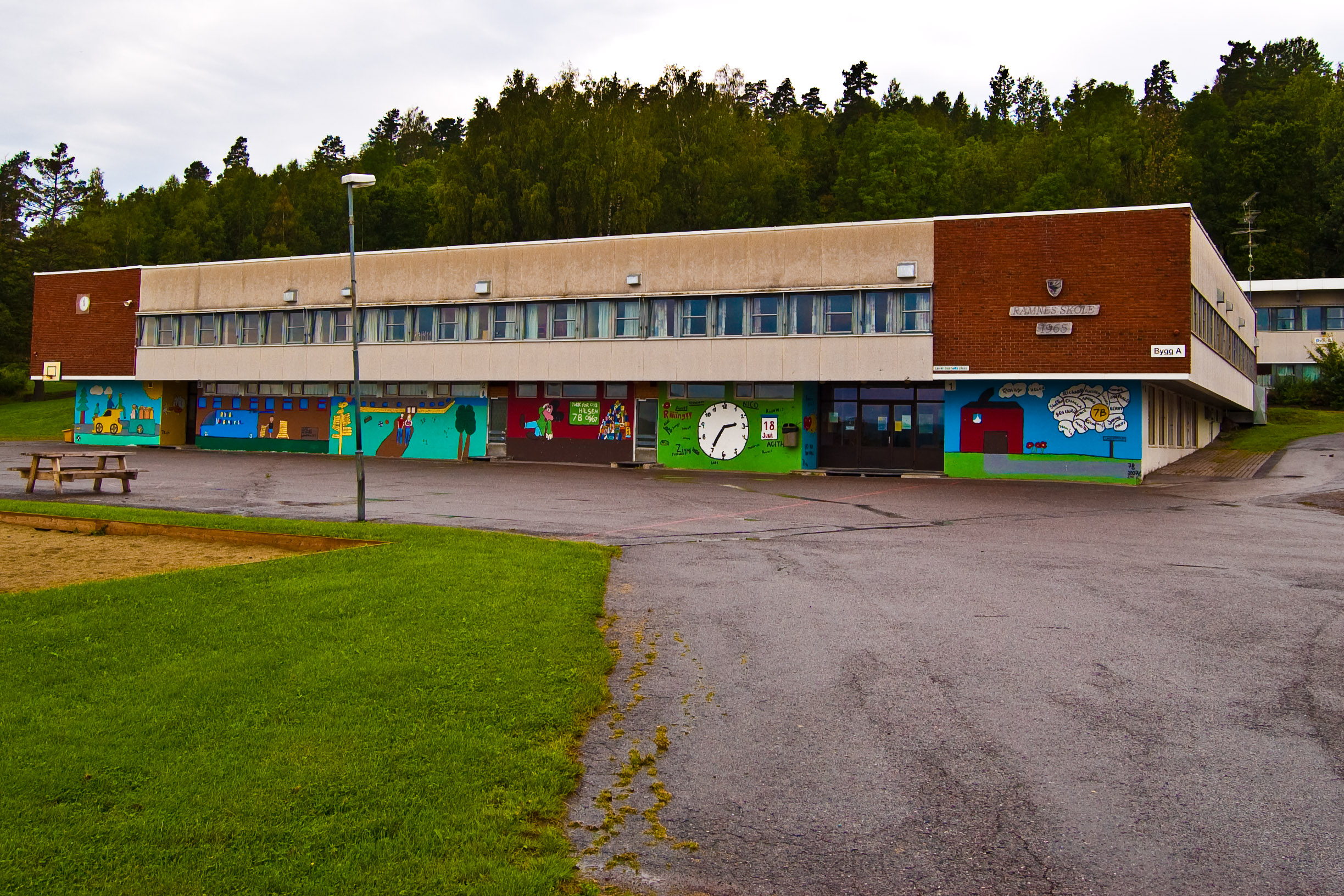 Ramnes skole. Public primary school in Re, Vestfold, Norway.